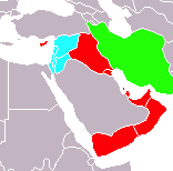 Map of the Episcopal Church in Jerusalem and the Middle East